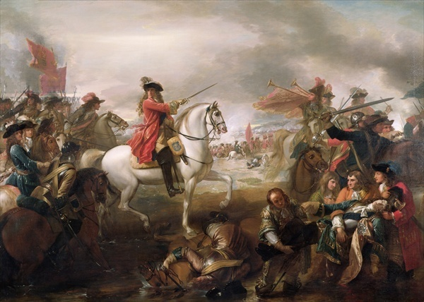 King William III at the Battle of the Boyne, 1 July 1690 (O. S.)